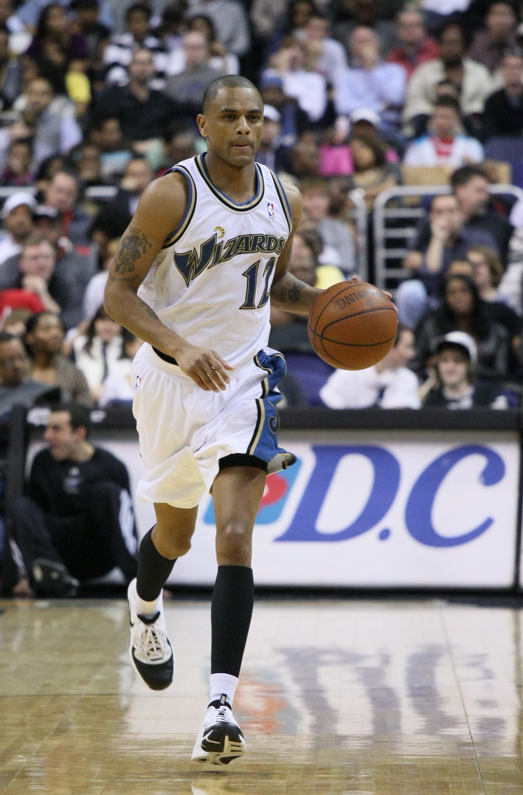 Juan Dixon, American basketball player for the Washington Wizards